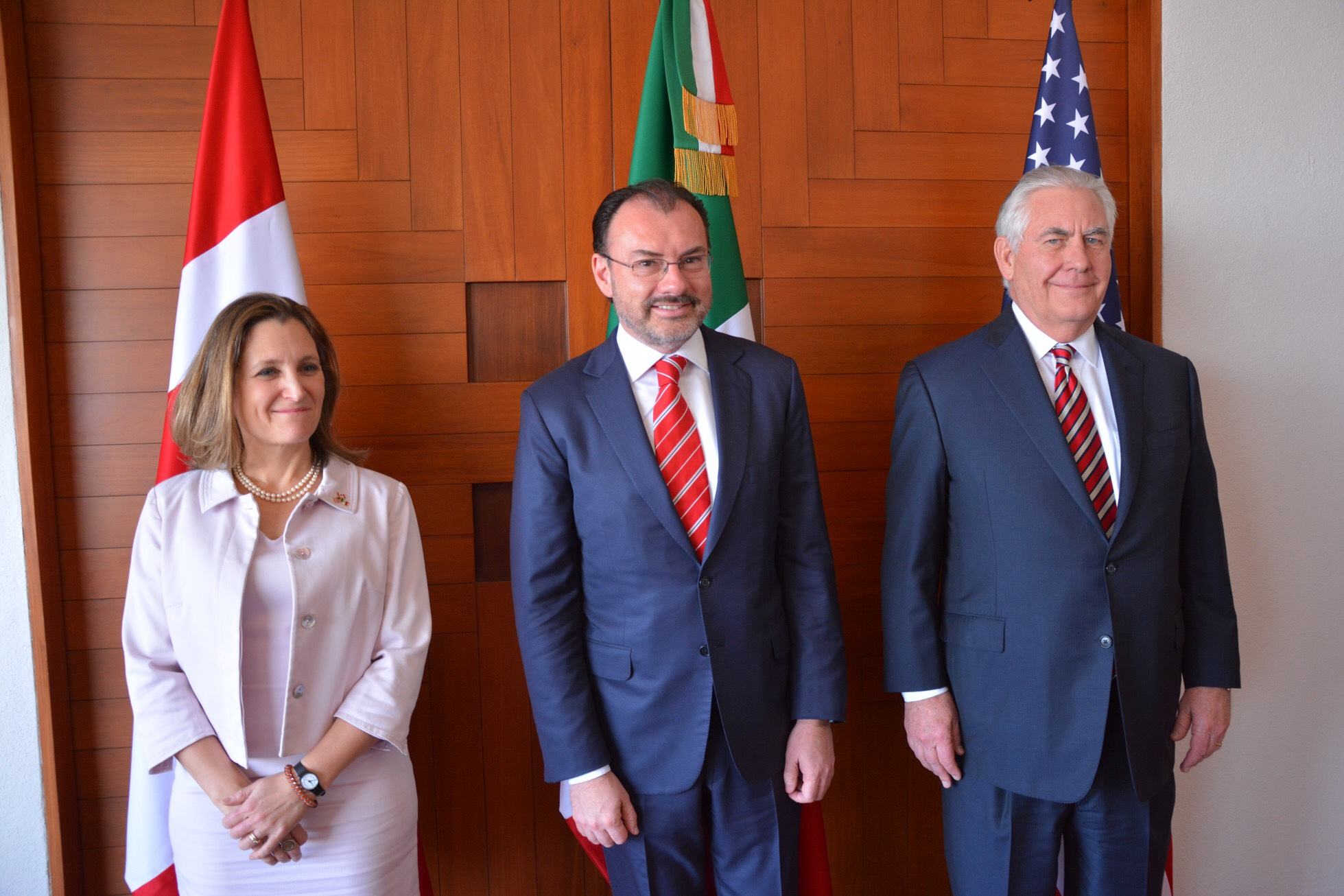 U.S. Secretary of State Rex Tillerson poses for a photo with Canadian Foreign Minister Chrystia Freeland and Mexican Foreign Minister Luis Videgaray Caso before their joint press conference in Mexico City, Mexico.